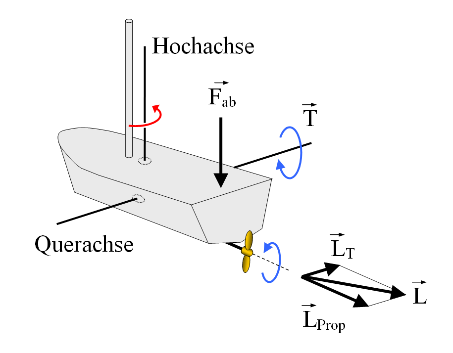 Propeller as a gyroscope with counterclockwise rotation